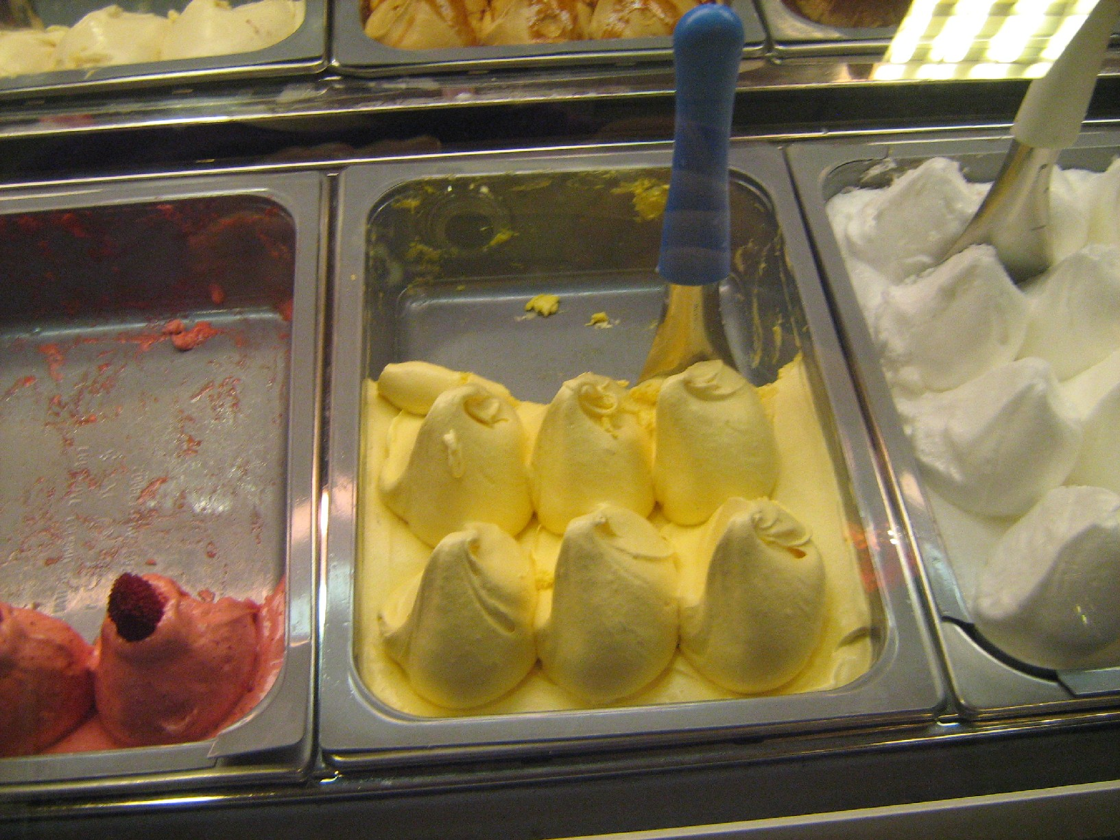 Durian Flavoured Gelato for sale in Shaw House Basement Food Court, Orchard Road, Singapore